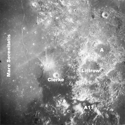 This image from the Mapping Camera shows the Apollo 17 landing site at the bottom and displays the contrast between the lighter surface of Mare Serenitatis to the west and the dark landscape that lies just south of Clerke and into the valley floor where the Lunar Module Challenger would land two missions hence.